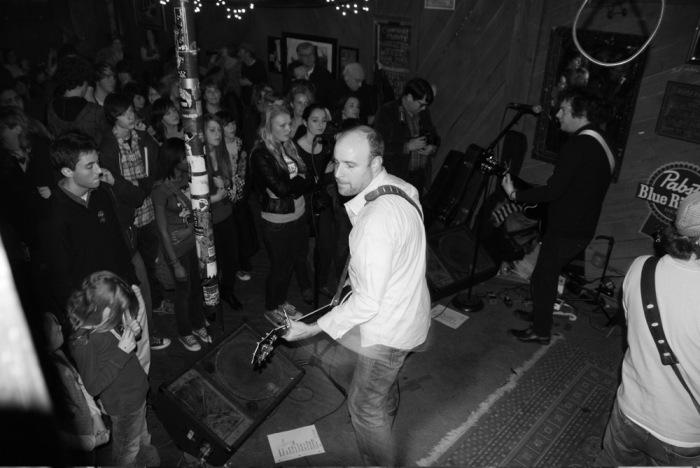 The Big Cats in concert in Little Rock, Arkansas (December 2010)